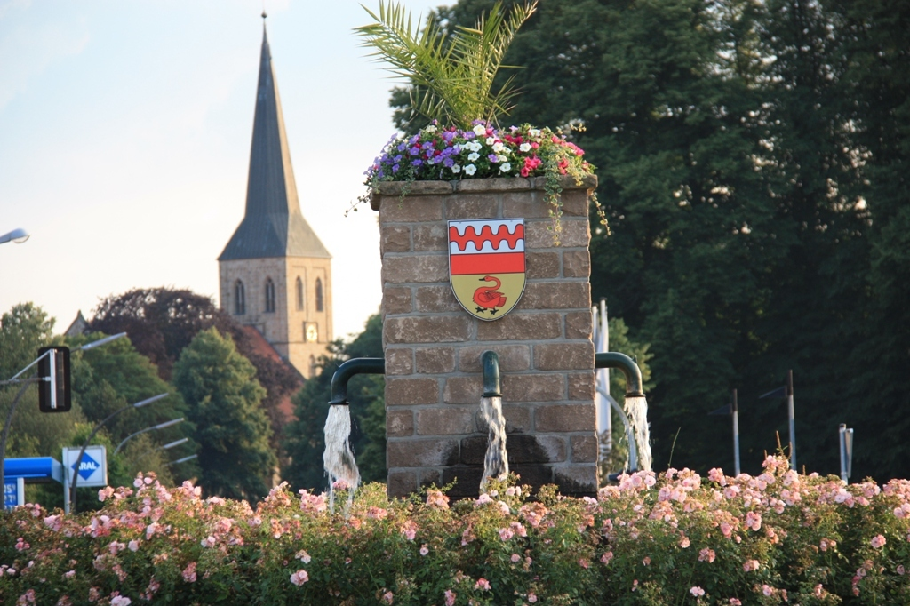 Kreisverkehr in der Gemeinde Wettringen auf der August-Kümpers-Straße mit der Kirche St. Petronilla im Hintergrund.